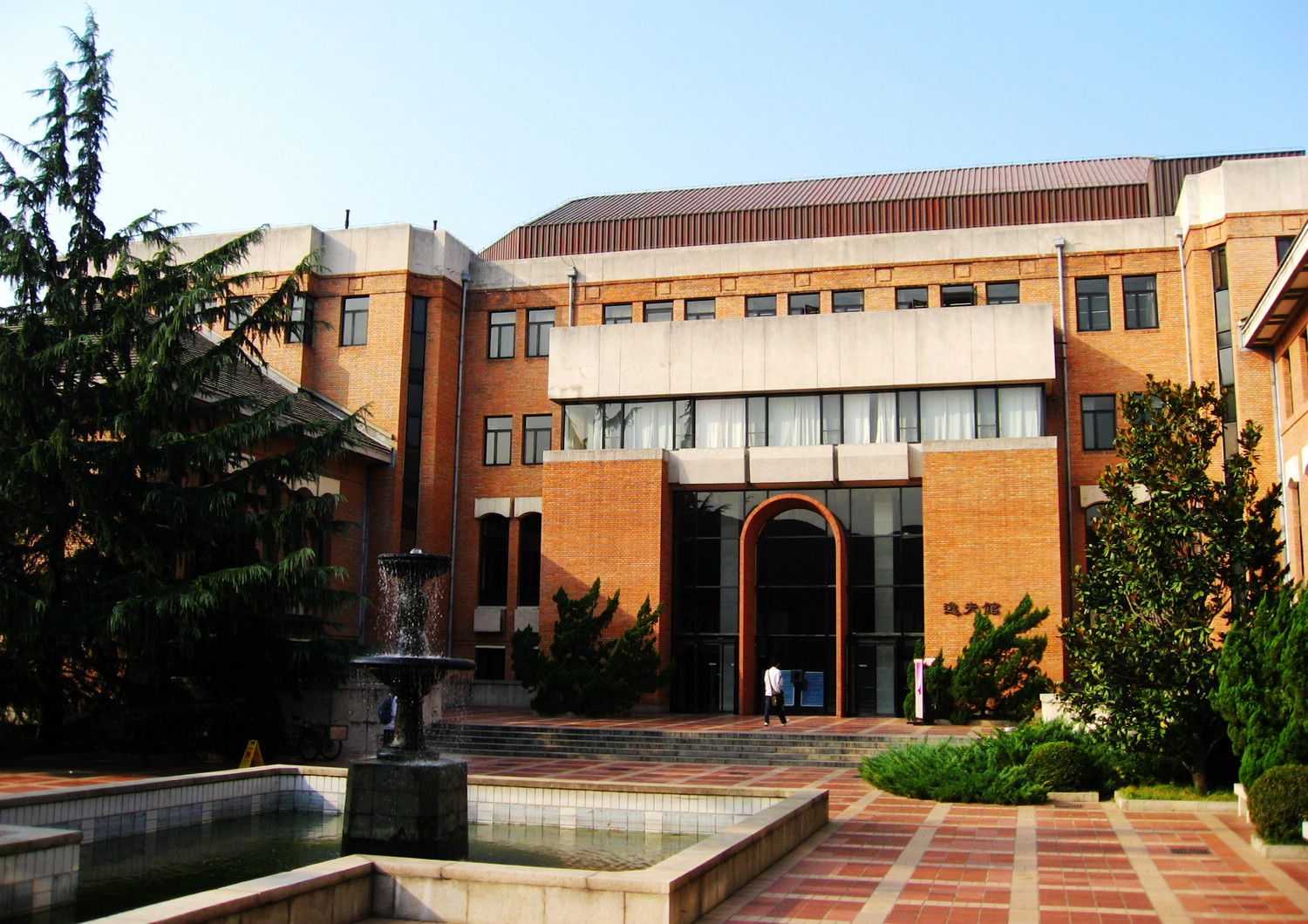 The New Library of Tsinghua University.